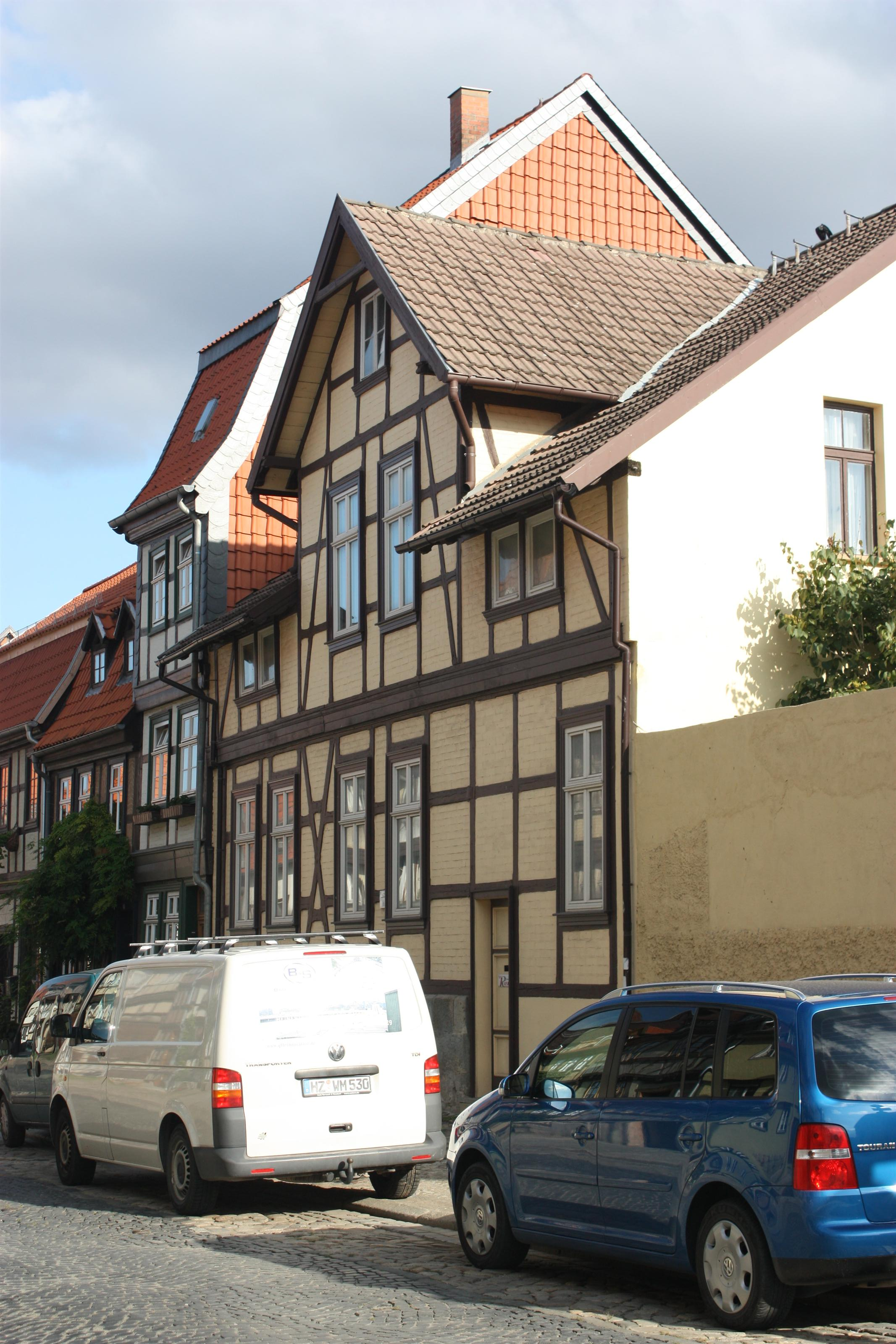 This is a photograph of an architectural monument.It is on the list of cultural monuments of Quedlinburg Augustinern 87a in Quedlinburg